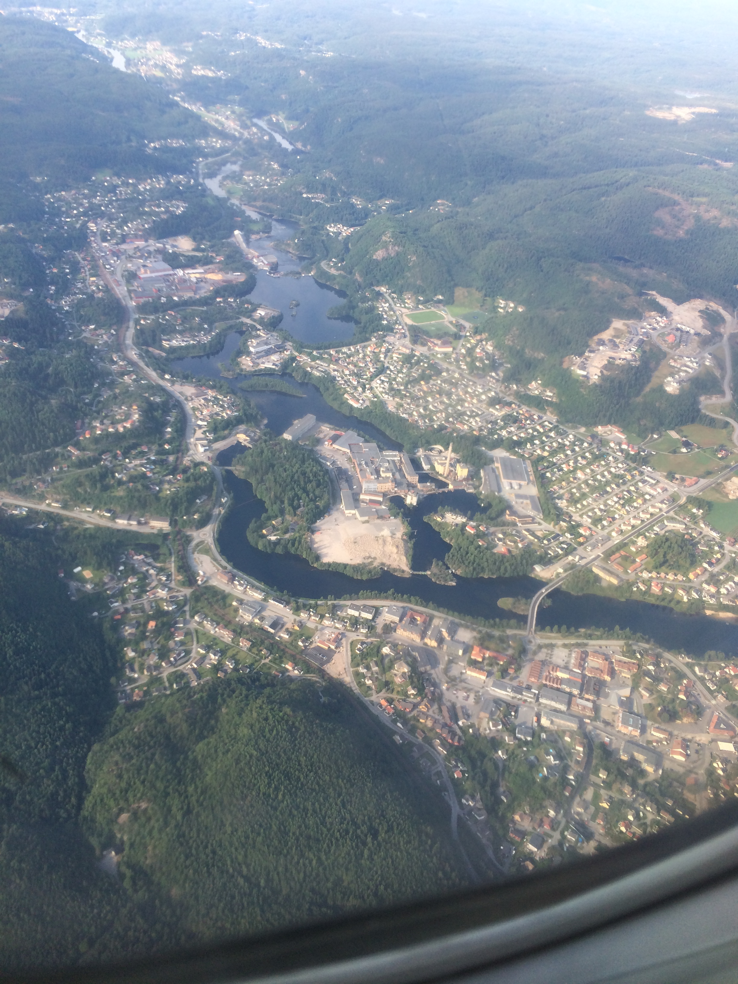 Aerial photo of Vennesla